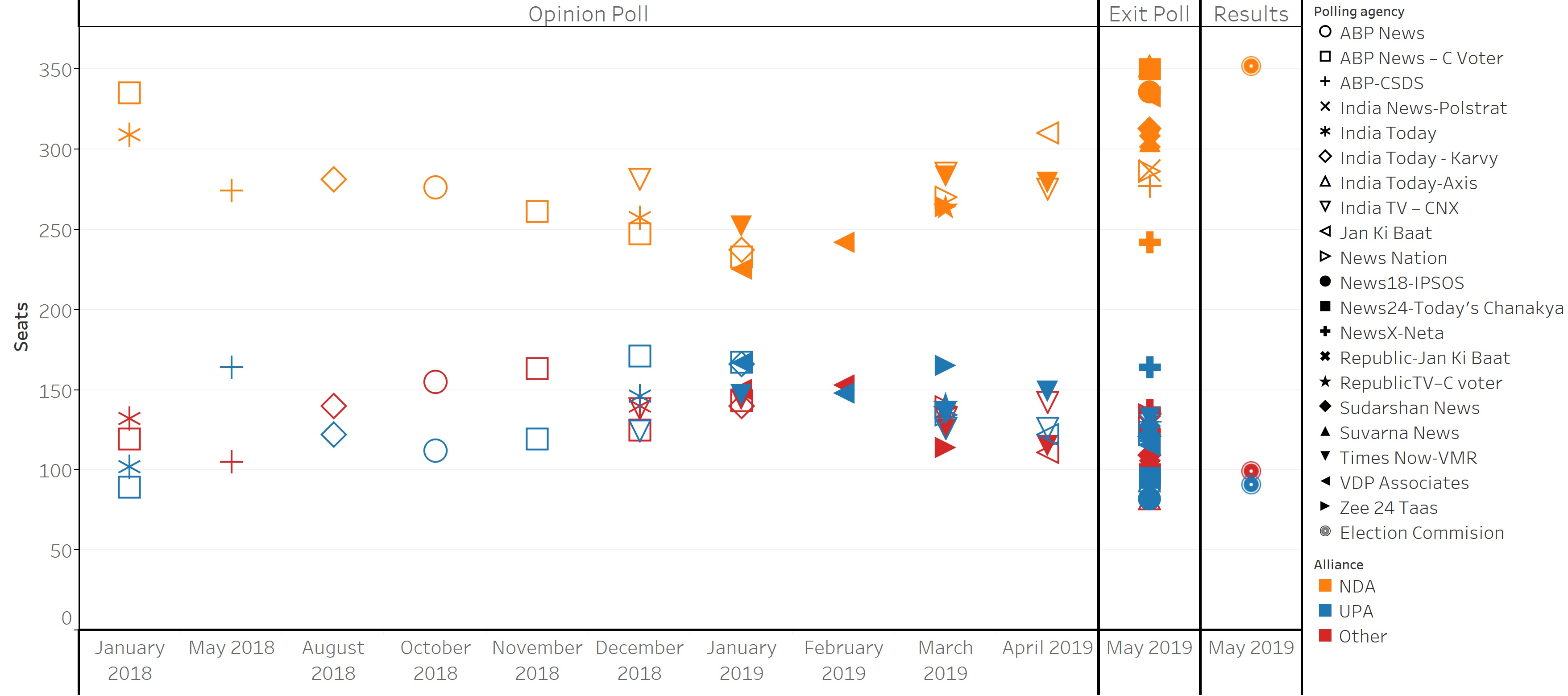 This image provides Indian general election trend in 2019 from opinion poll to exit poll and results